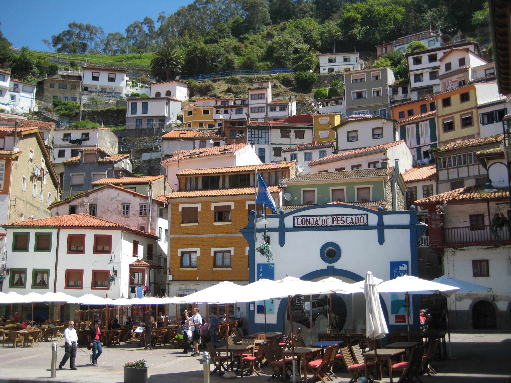 Cudillero (Asturias, Spain)